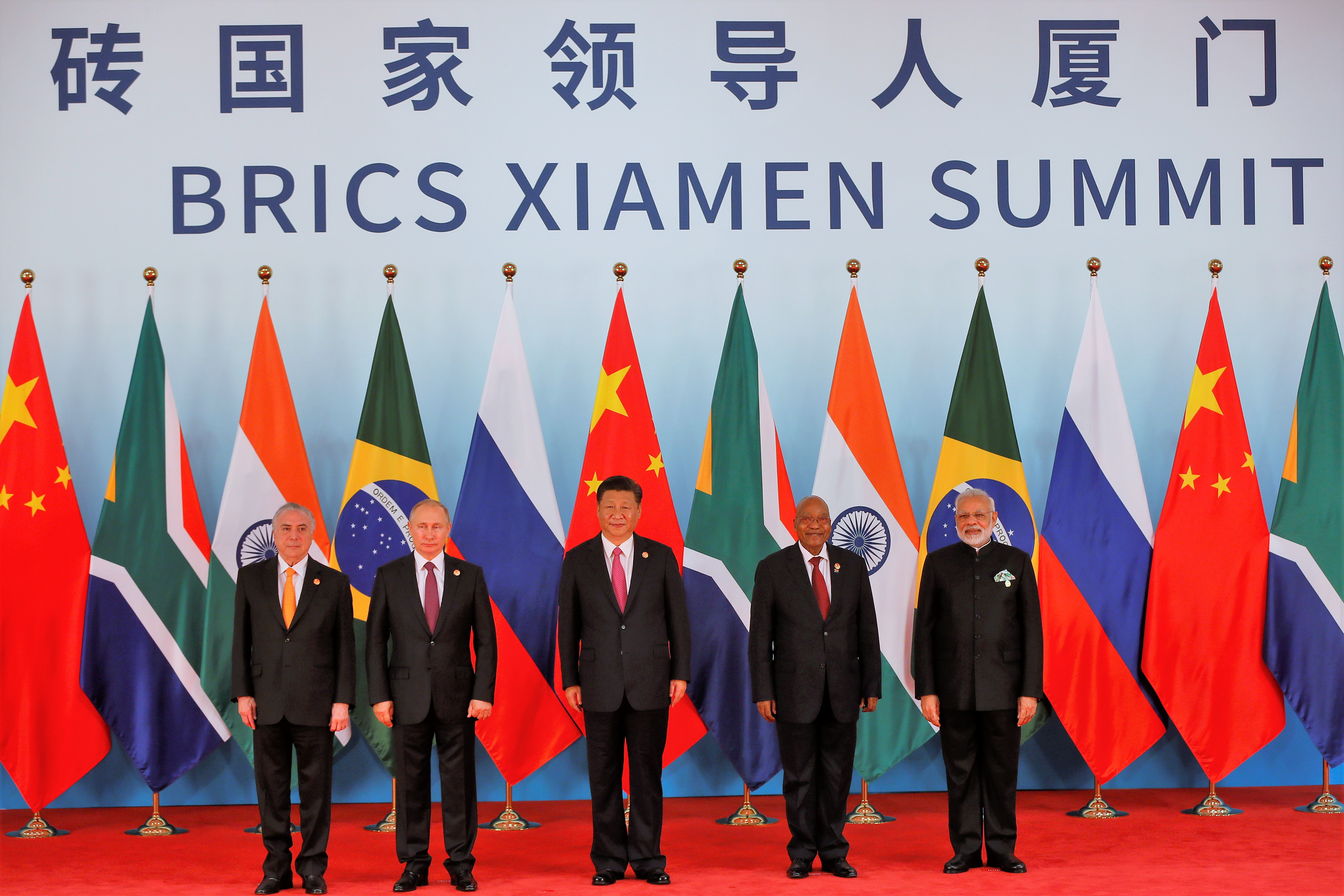 (Xiamen - China, 04/09/2017) Photo of Leaders of the IX Summit of the Brics. Photo: Beto Barata/PR